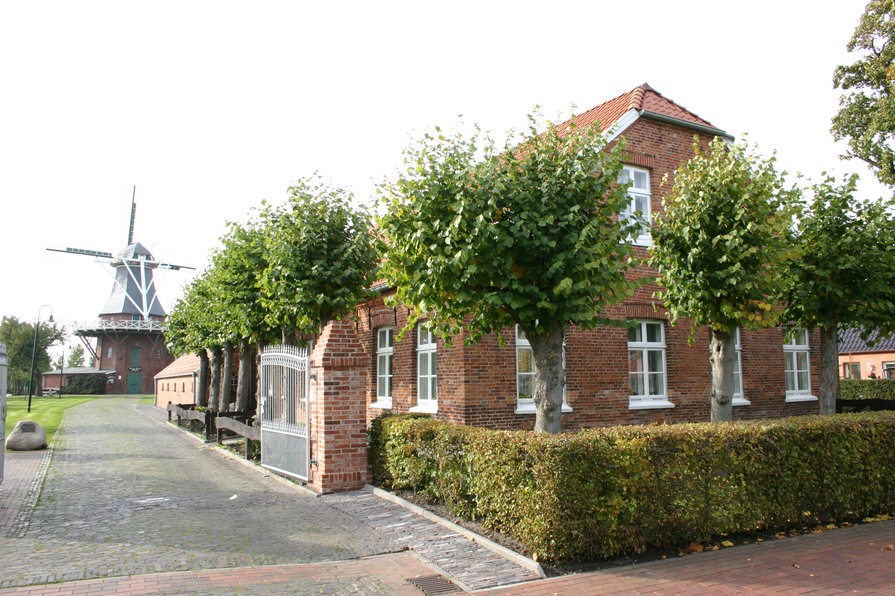 Windmill and old farmhouse in Leezdorf, East Frisia, Germany